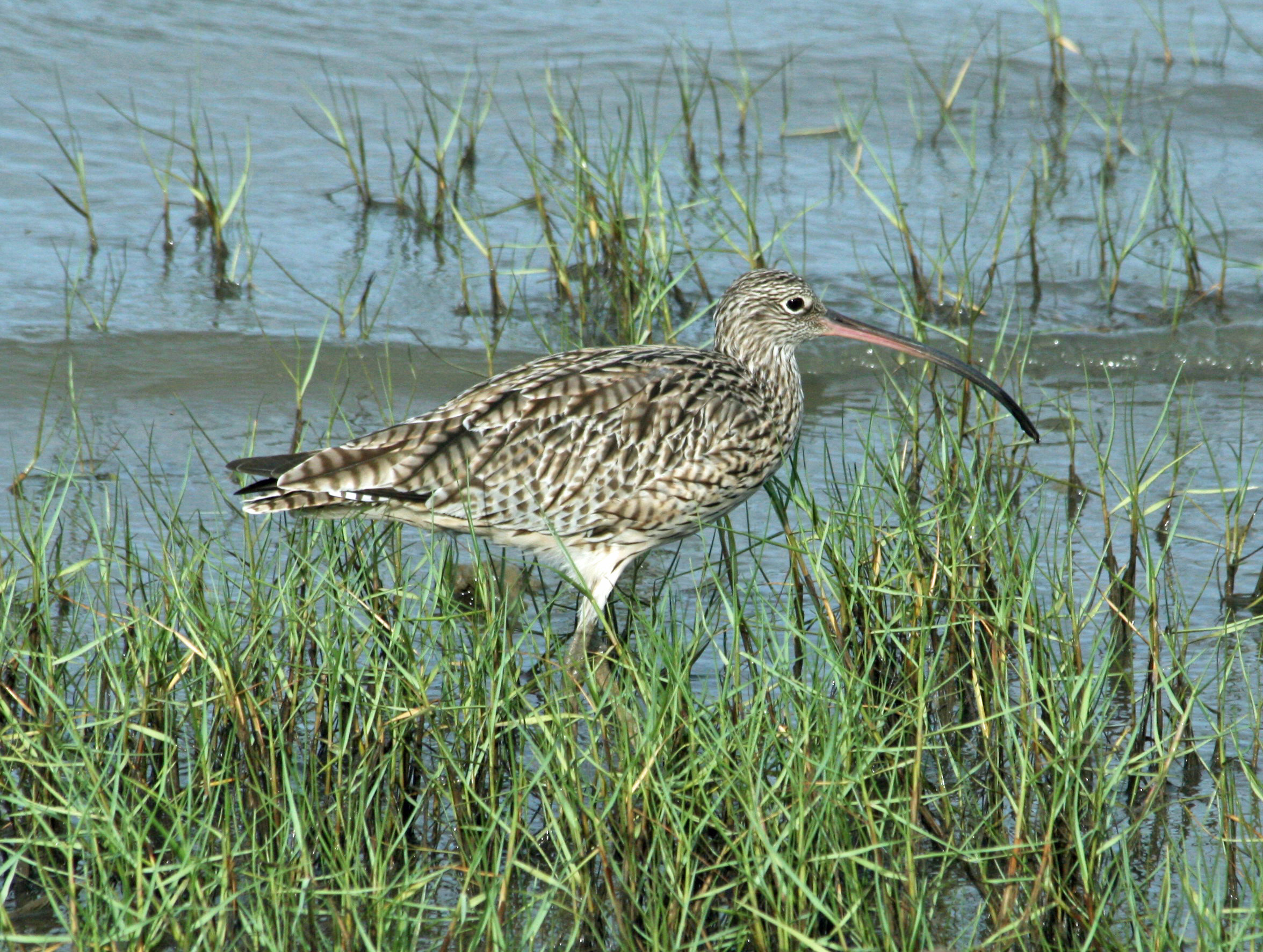 Far Eastern Curlew, also Eastern Curlew (Numenius madagascariensis) - Cairns, Australia